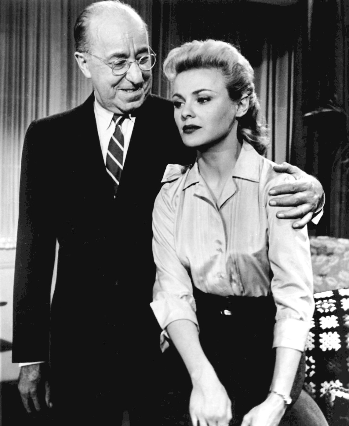 Photo of Ed Wynn and Kathleen Crowley from the television program The 20th Century Fox Hour. This episode was "The Great American Hoax". Fox sponsored the show and produced abridged, less expensive versions of their films for it.